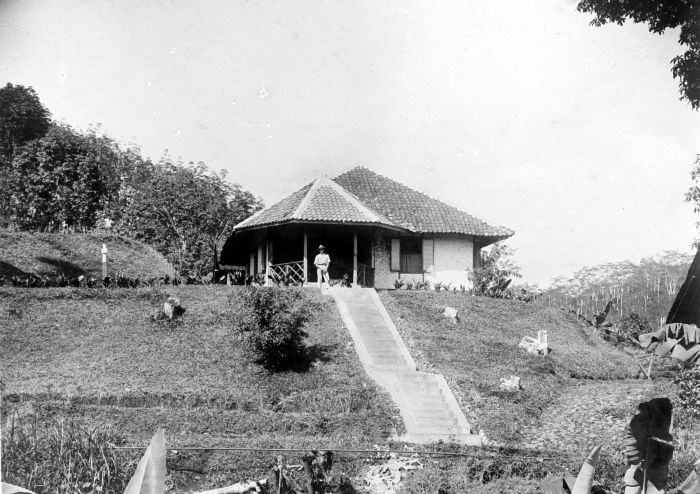 House of an employee of the rubber and tea plantation Soekamadjoe in the district Tjibadak, West-Java